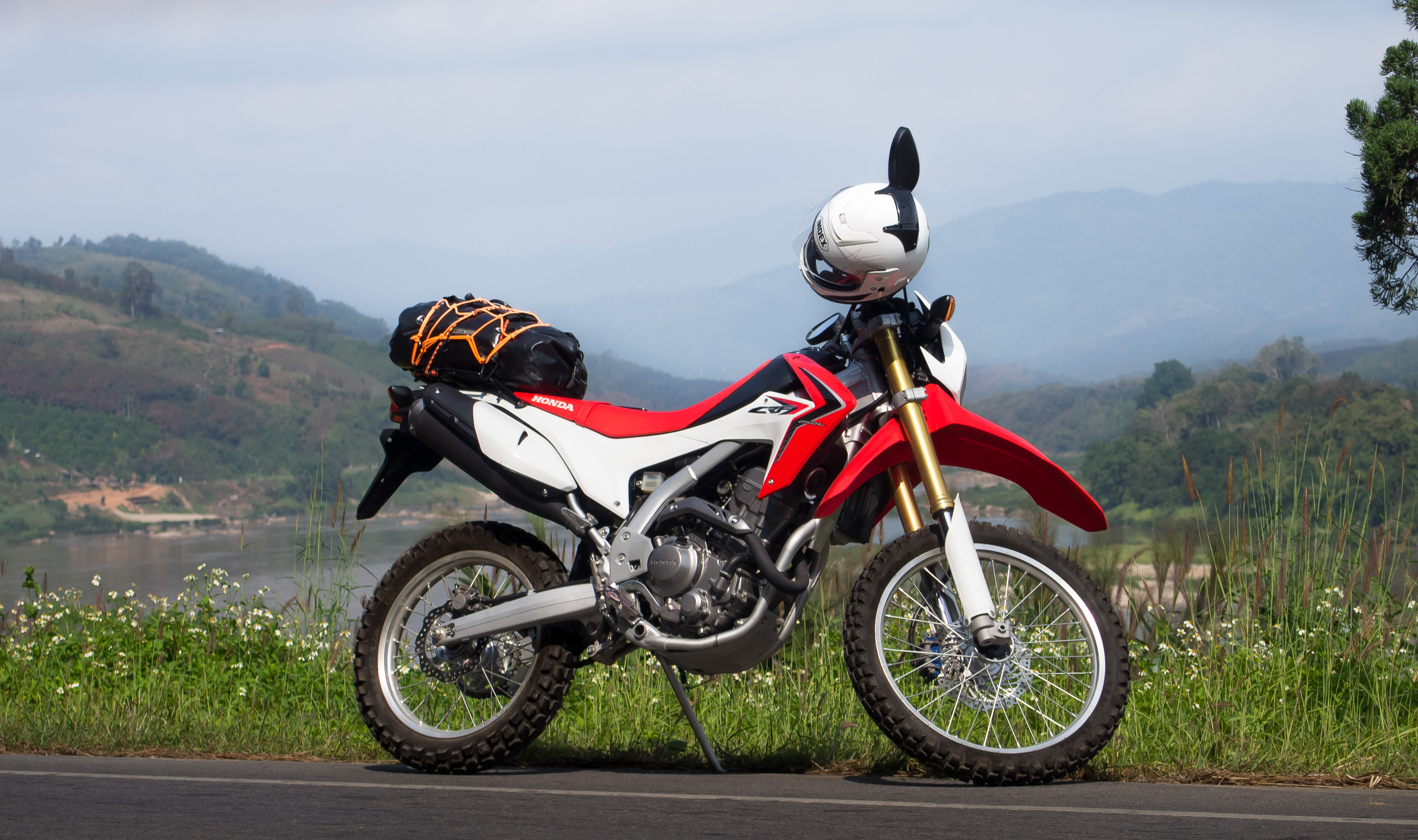 A Honda CRF250L 2013 model with the Mekong river, and Laos beyond, in the background; Road number 1129, in Chiang Rai province, Thailand. The waterproof bag strapped to the rack and seat is an Ortlieb "Rack Pack", size M.